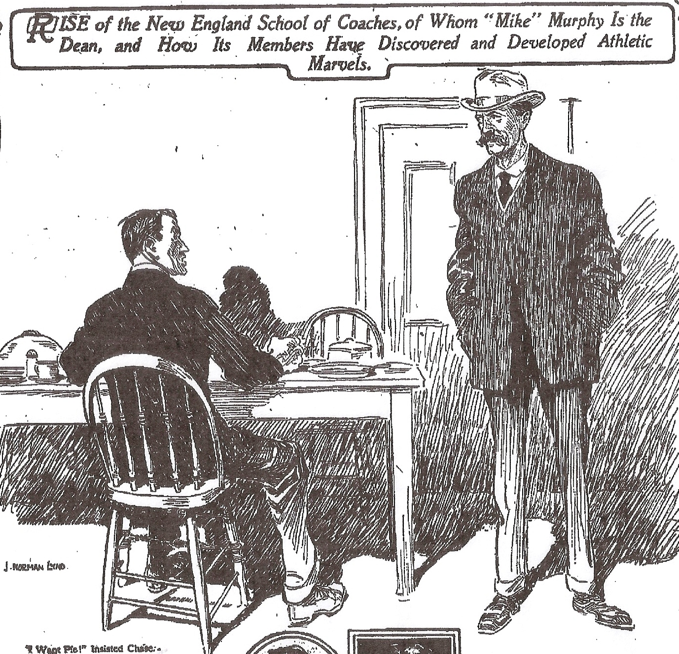 Drawing of Mike Murphy